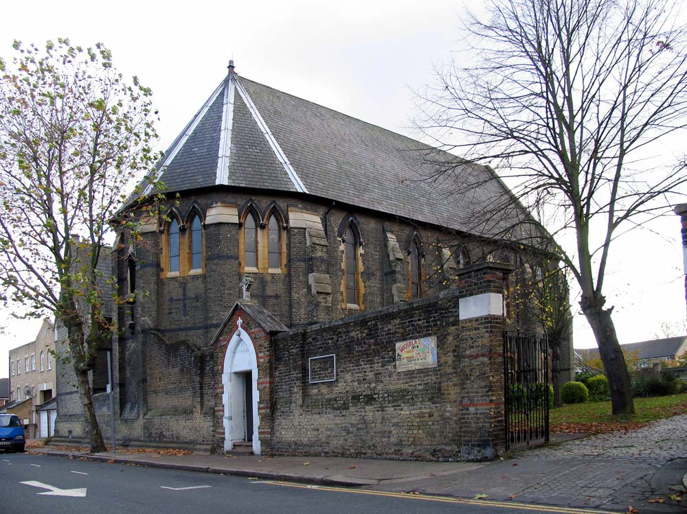 St Nicholas, Gladding Road, London E12